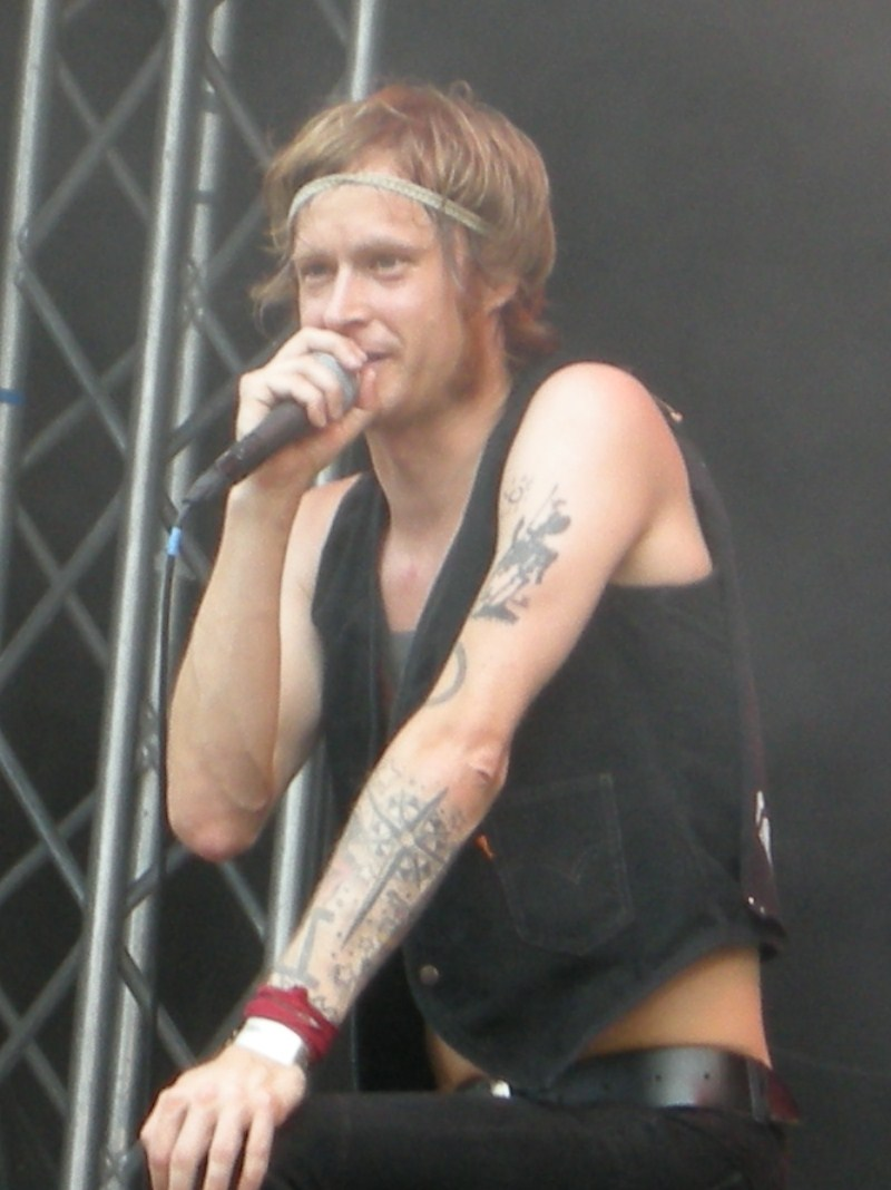 Dennis Lyxzén, The (International) Noise Conspiracy, at Sonisphere Sweden 2009